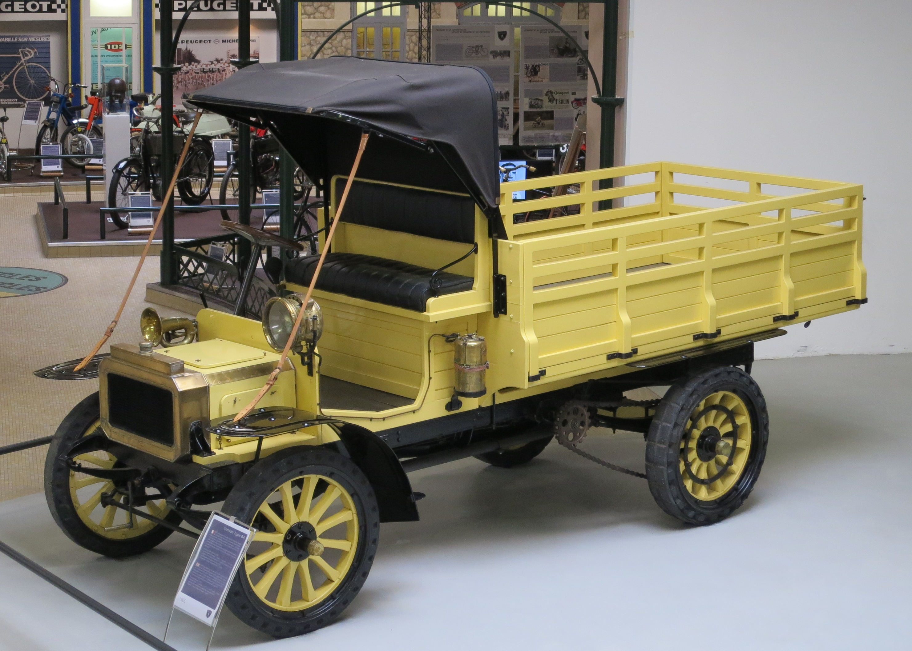 Peugeot Camion Type 64 at Sochaux